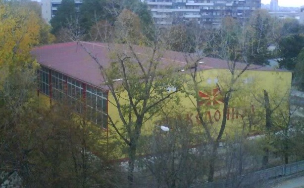 Photo of the hall independent Macedonia in Kisela Voda, Skopje